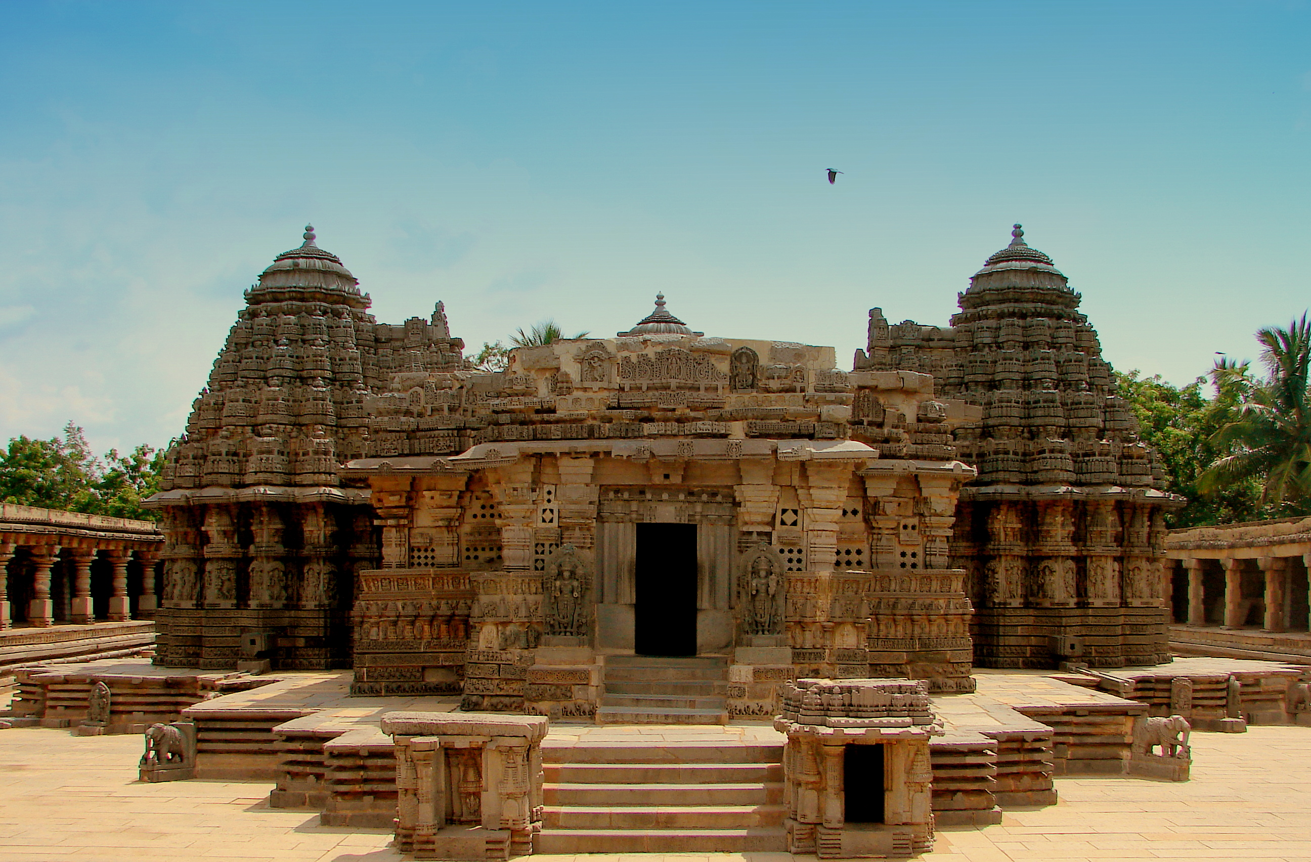 Derivative of work uploaded by user:Dineshkannambadi on wikipedia